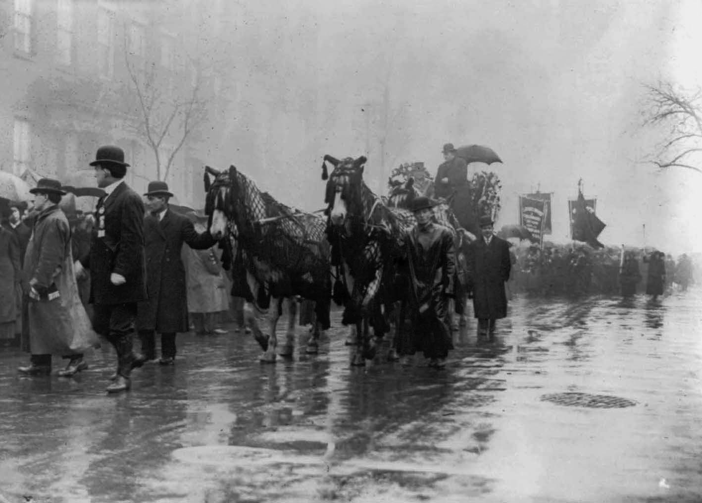 People and horses draped in black walk in procession in memory of the victims of the Triangle Shirtwaist Company fire, New York City.